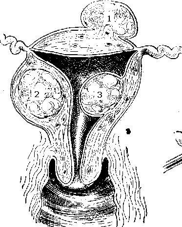 Uterine fibroids Picture